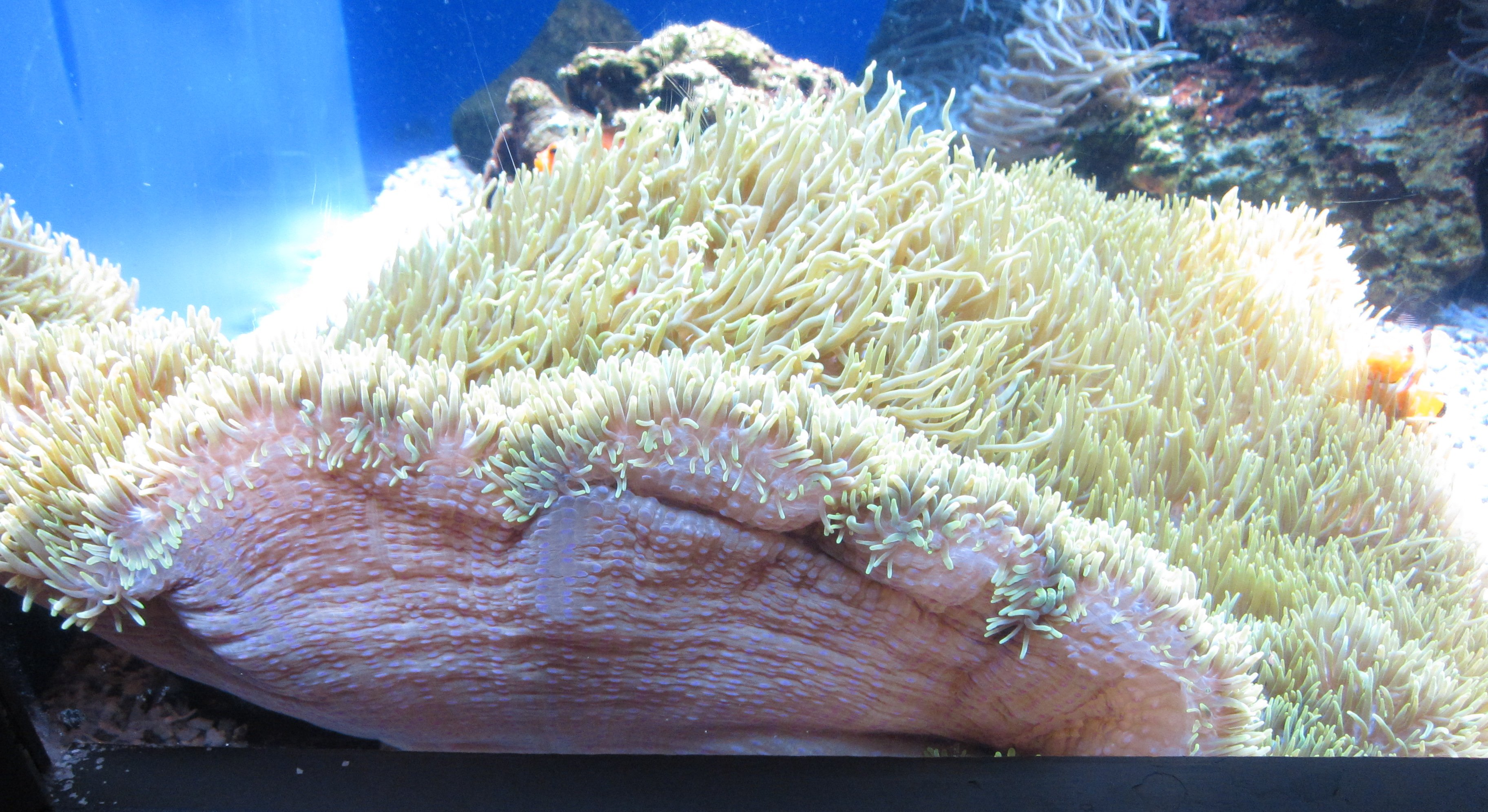 Carpet Anemone (Stichodactylus gigantea) at Waikiki Aquarium